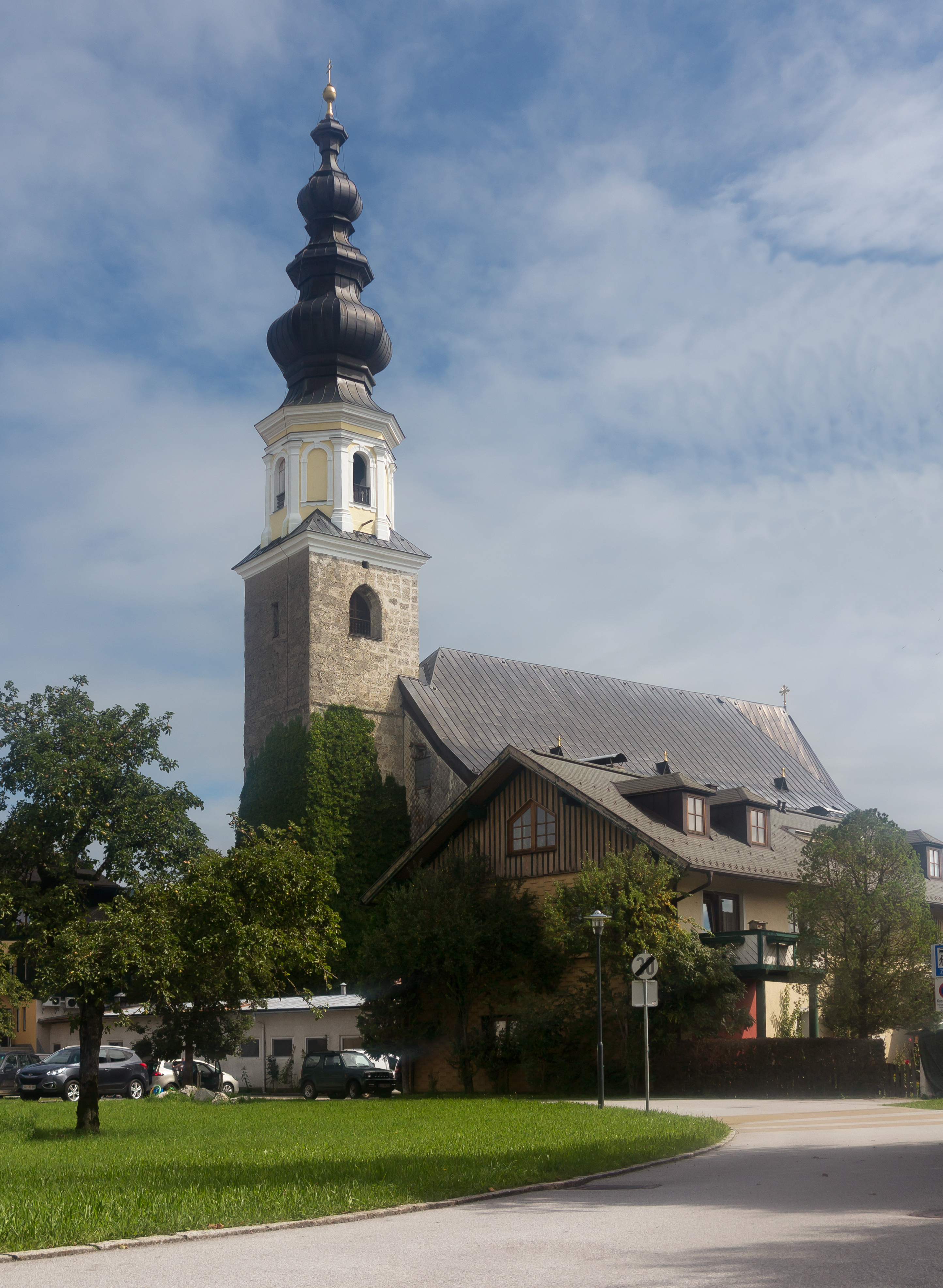 Thalgau, church: Katholische Pfarrkirche Sankt Martin